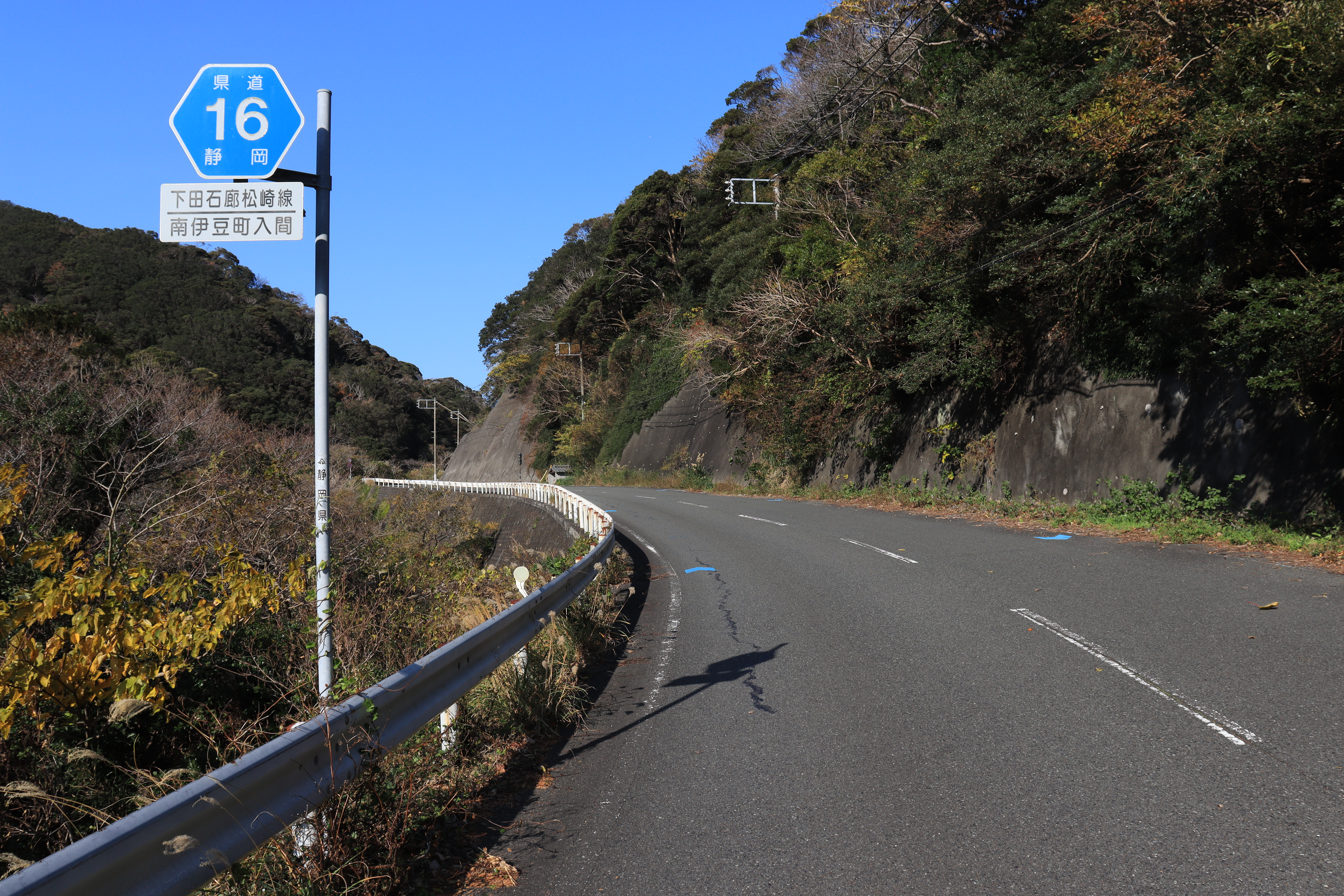 Shizuoka Prefectural Road Route 16 in Iruma, Minamiizu, Shizuoka Prefecture, Japan.